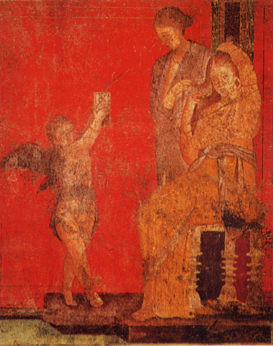 A young woman sits while a servant fixes her hair with the help of a cupid, who holds up a mirror to offer a reflection. Fresco from the Sala di Grande Dipinto, Scene IX (left part) in the Villa de Misteri (Pompeii).